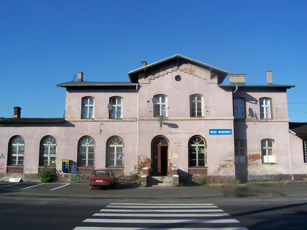 The railway station in Opole-Groszowice, Poland